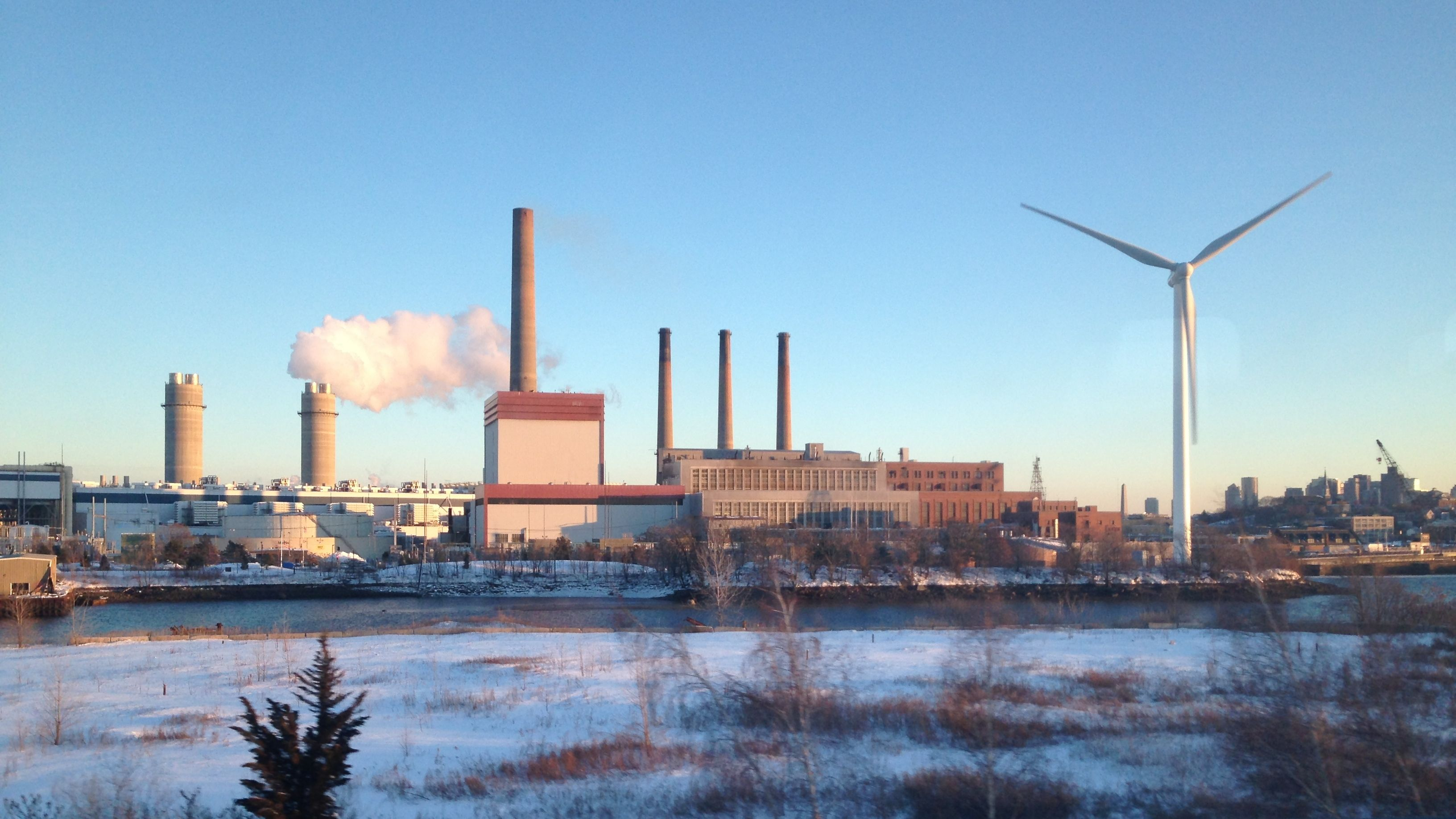 Mystic Generating Station, on the Mystic River in Everett, Massachusetts, a gas and oil-fired power plant. Also shown is a wind turbine which is not part of the power plant, but owned by the water authority to power a pumping station.